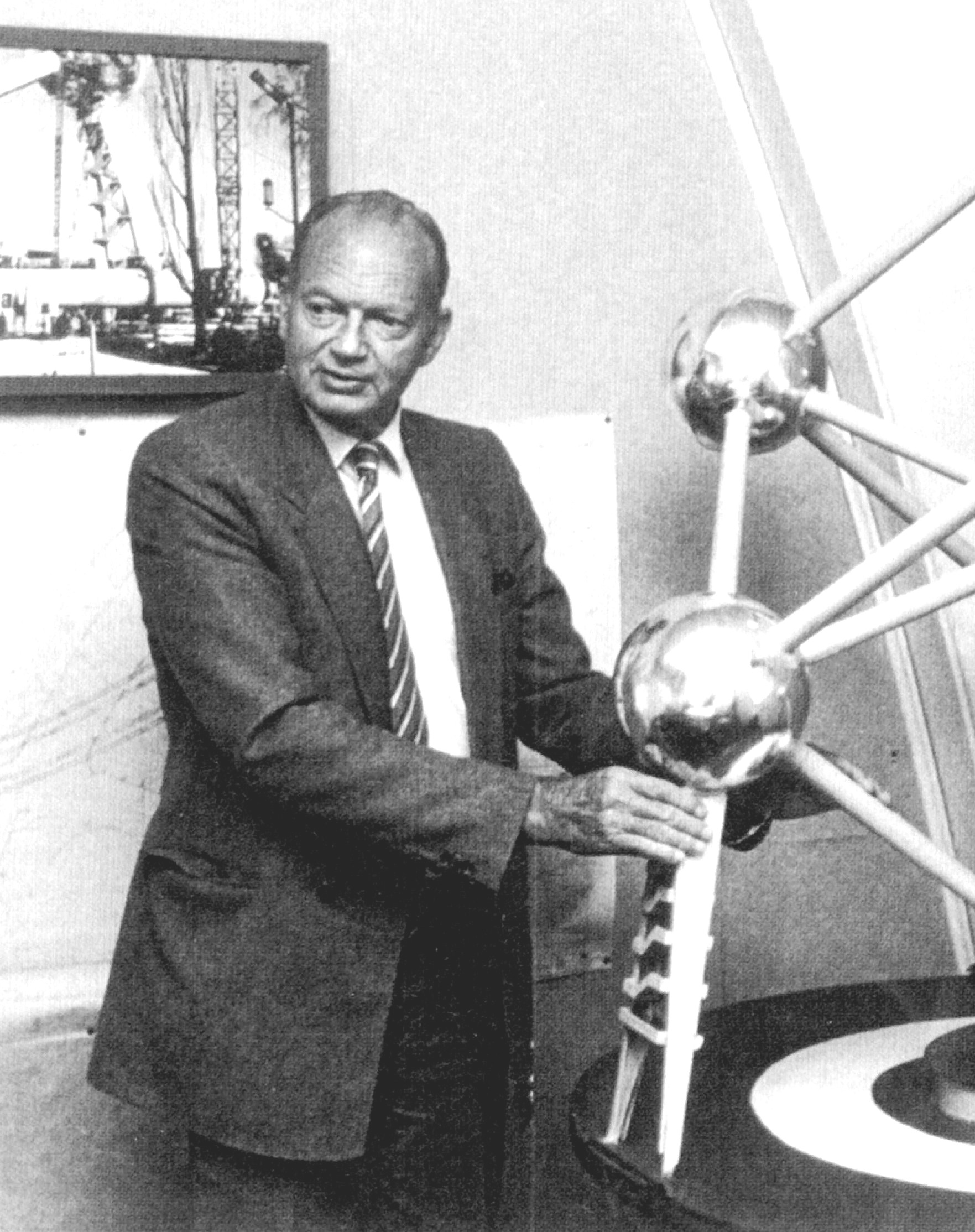 Portrait of Andre Waterkeyn (1917-2005) creator of the Atomium in Brussels, in front of a model of his creation.